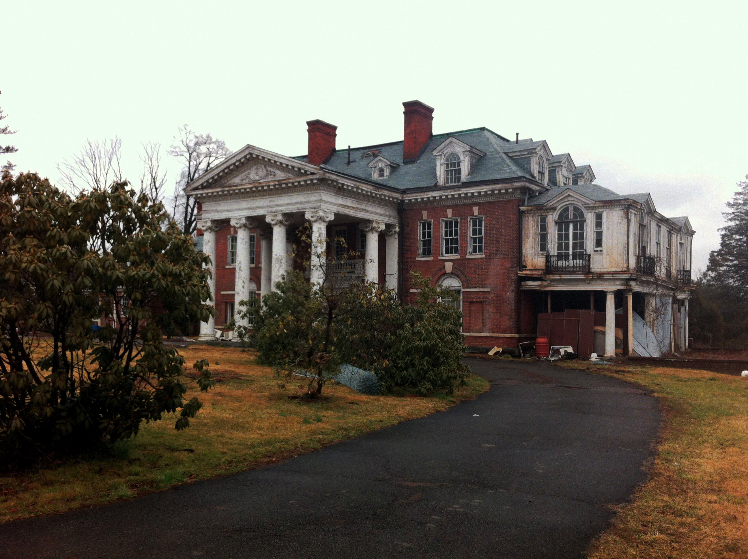 Louis Marks House, taken on March 3, 2012.